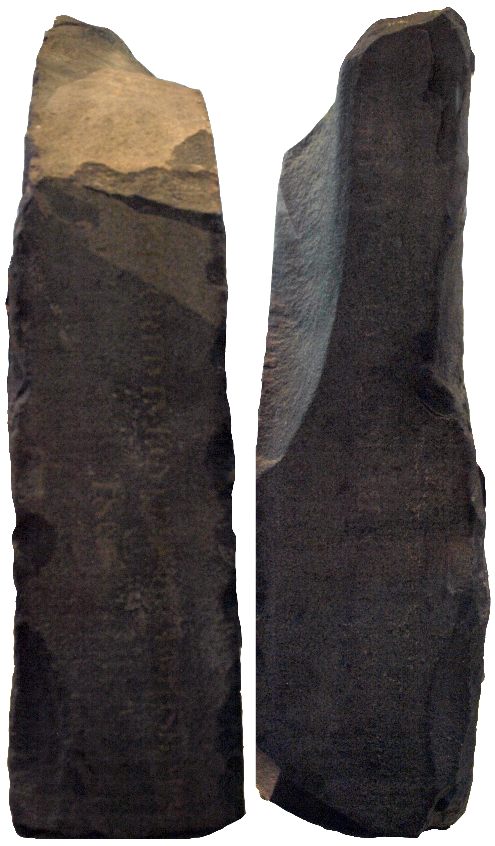 The left and right sides of the Rosetta Stone, containing the faint English inscriptions saying: (L) "Captured in Egypt by the British Army in 1801" (R) "Presented by King George III".